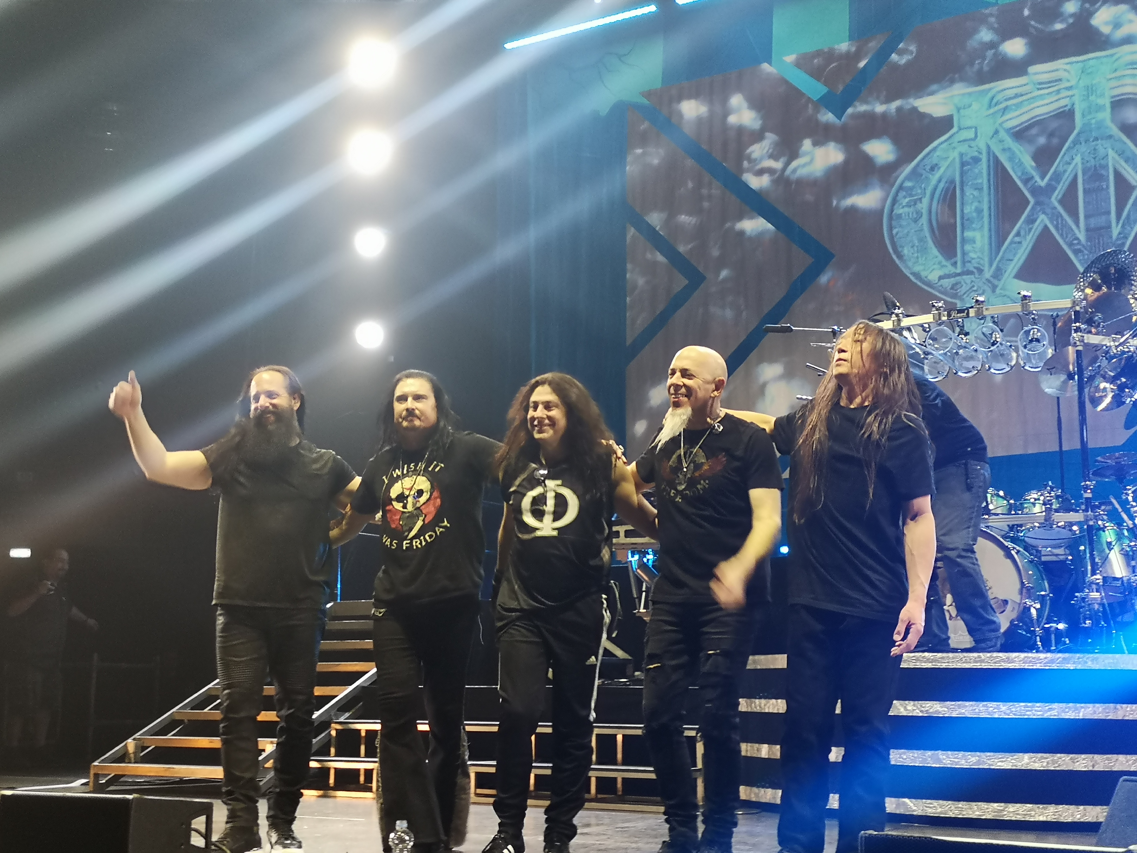 Dream Theater after their show at Mediolanum Forum in Assago on February 12th, 2020